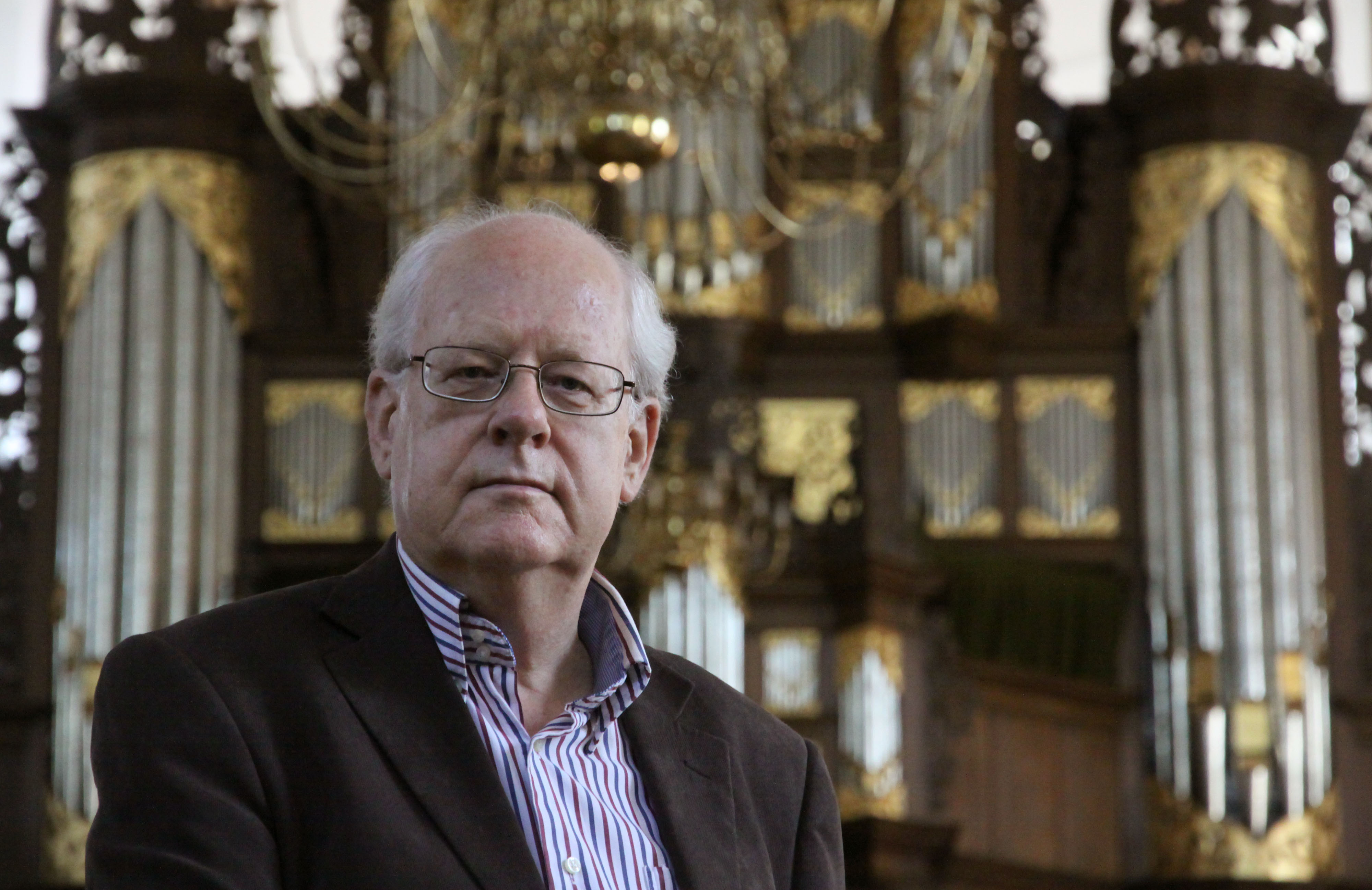 Dirk S. Donker